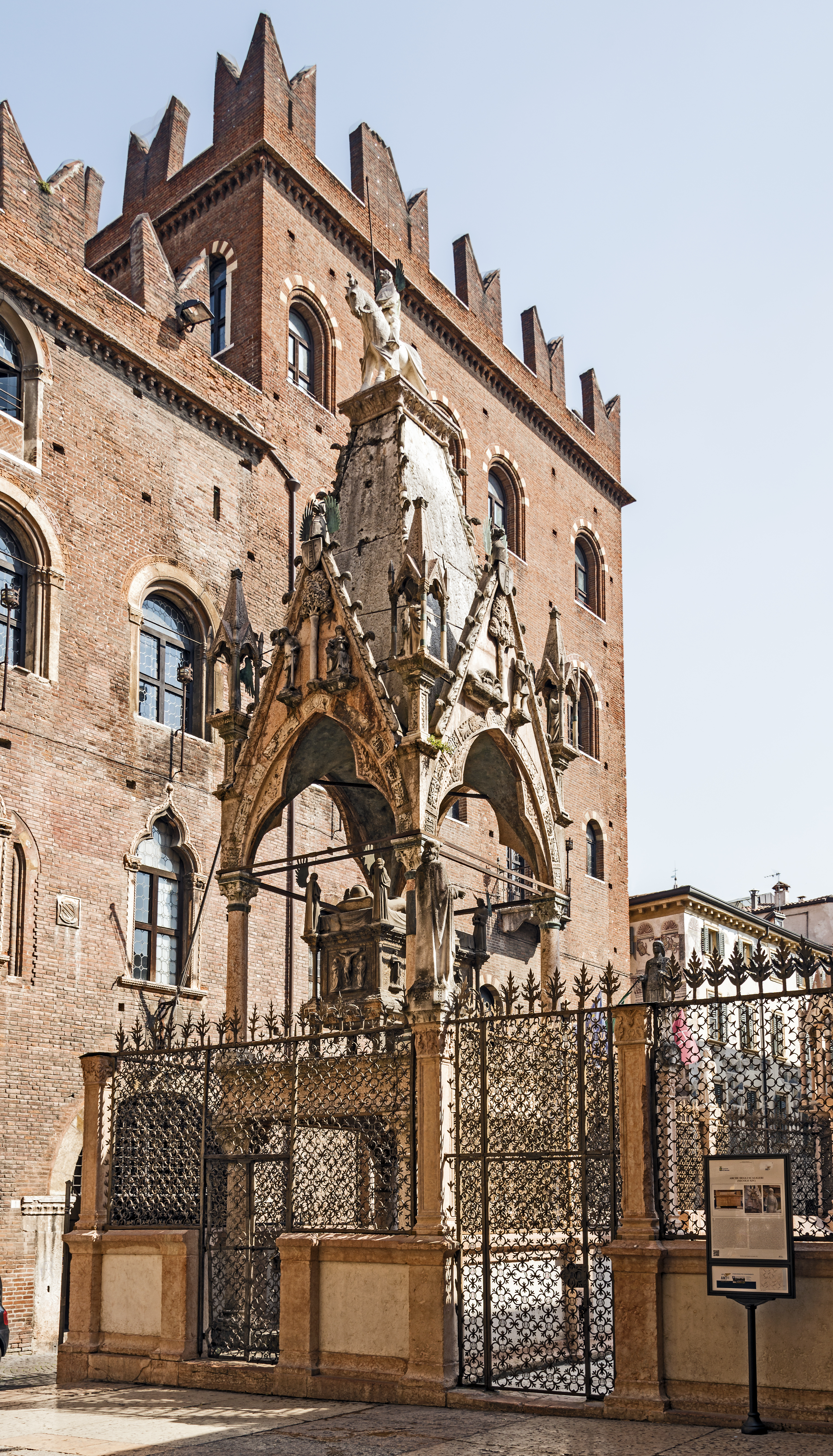 Scaliger Tombs in Verona. The tomb of Mastino II.